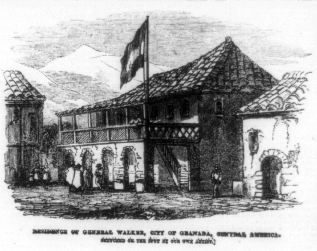 Residence of General William Walker, City of Granada (Nicaragua). Illus. in: Frank Leslie's Illustrated Newspaper, 1856 Mar. 15, p. 217.